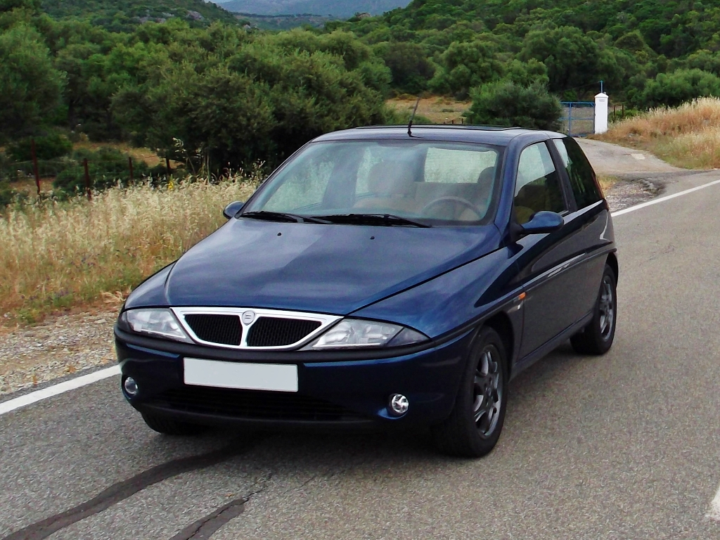 1996 Lancia Y on a mountain road near Cádiz, Spain